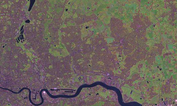 I created image using the above.